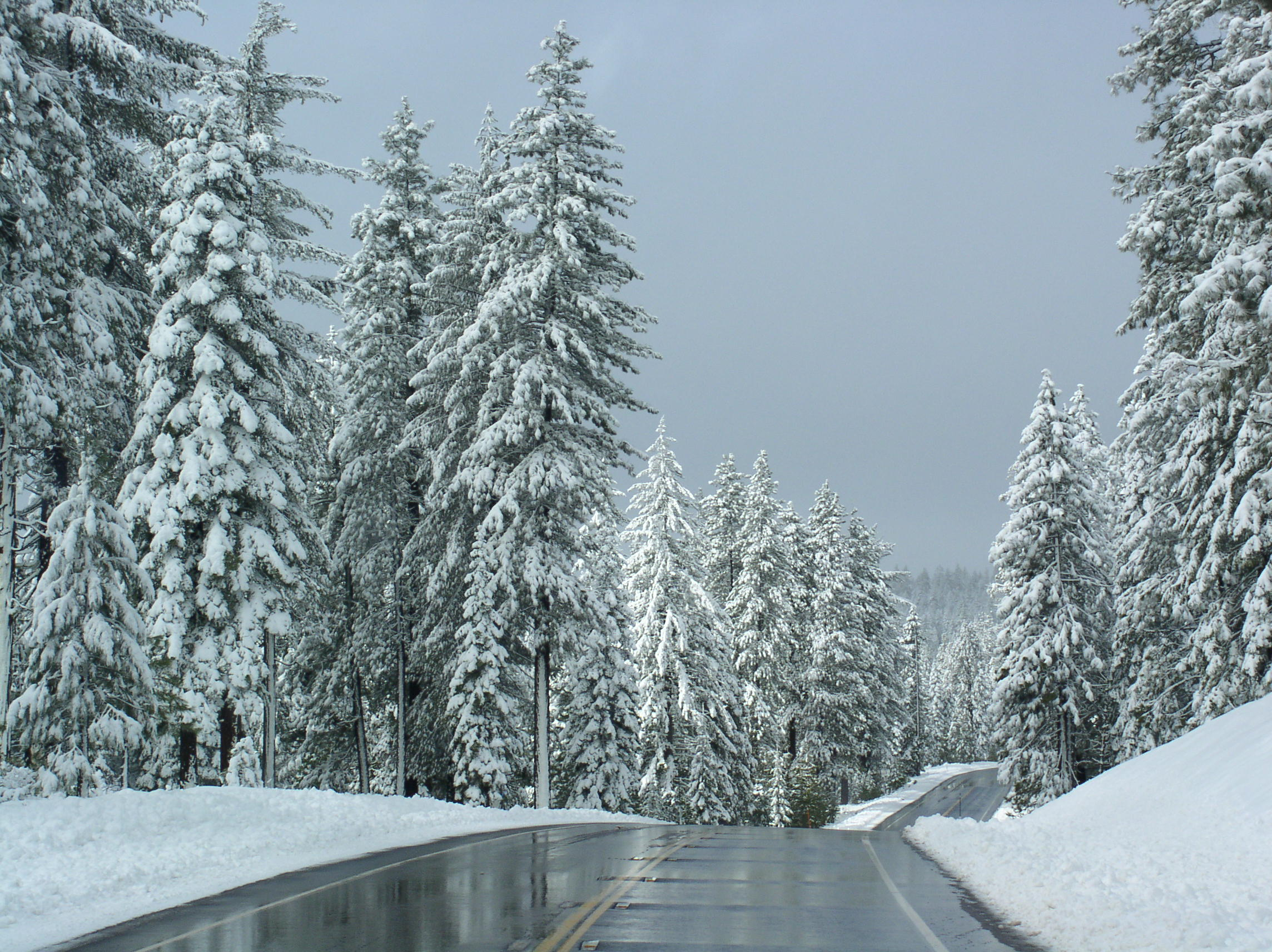 California Highway 44 in the wintertime.